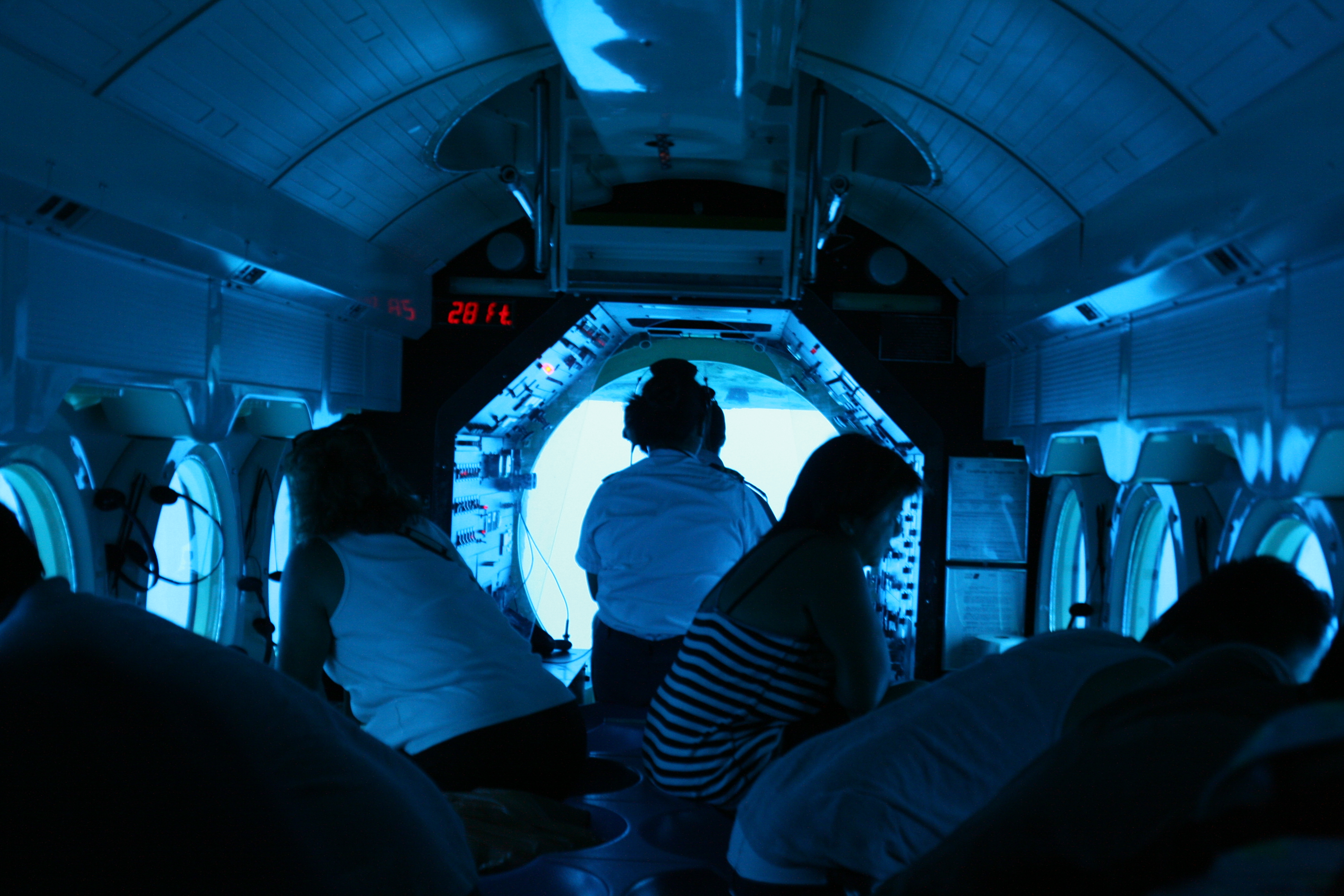 Tourist submarine operated near Honolulu, HI